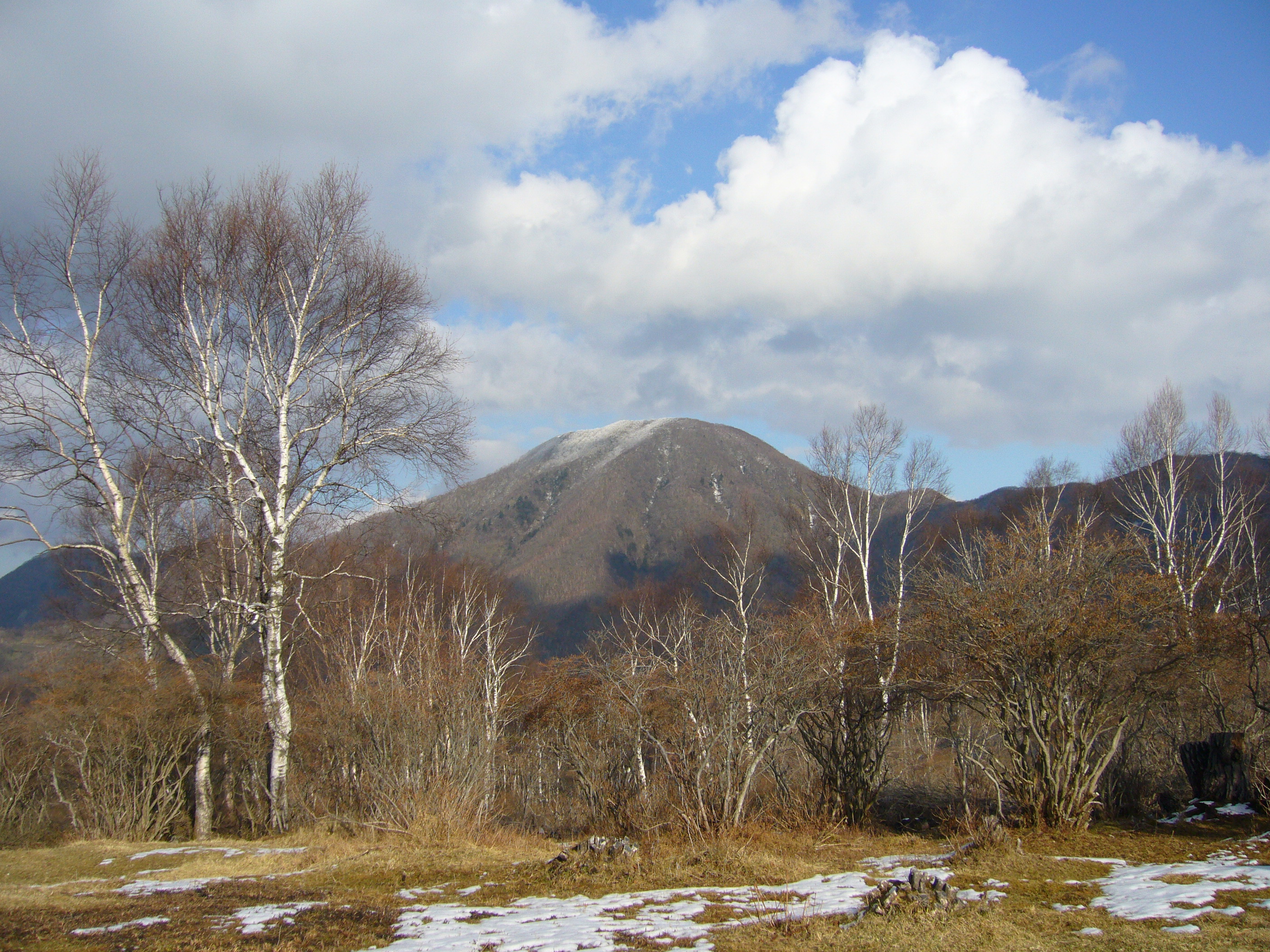 Mount Kurobi seen from the west in Mount Akagi, Gunma Prefecture, Japan. A view from around here.